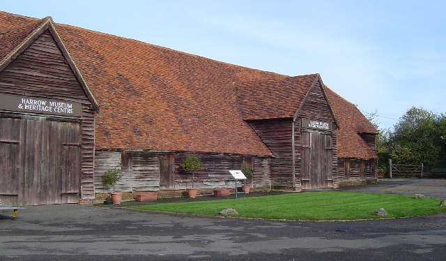 Tithe Barn, Headstone Manor, Harrow, Middlesex. This Grade II listed building had its 500th anniversary in 2006. It is now one of the main buildings used by Harrow Museum.